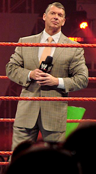 Vince McMahon at a WWE Raw event. Bradley Center, Milwaukee, Wisconsin, September 24en:2007. Taken by me.